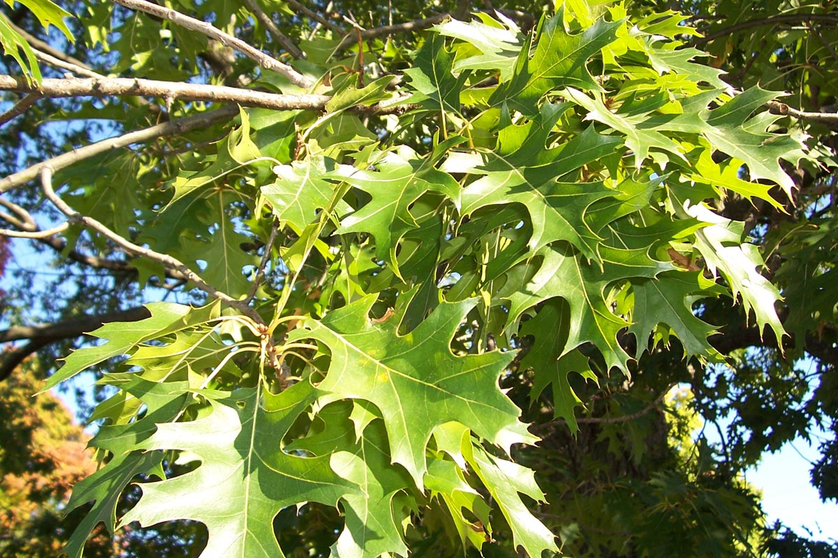 Foliage of a Northern Pin Oak tree. This specimen was found at Wilson Park in Milwaukee, Wisconsin.